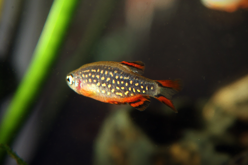 Male individuum of Danio margaritatus.